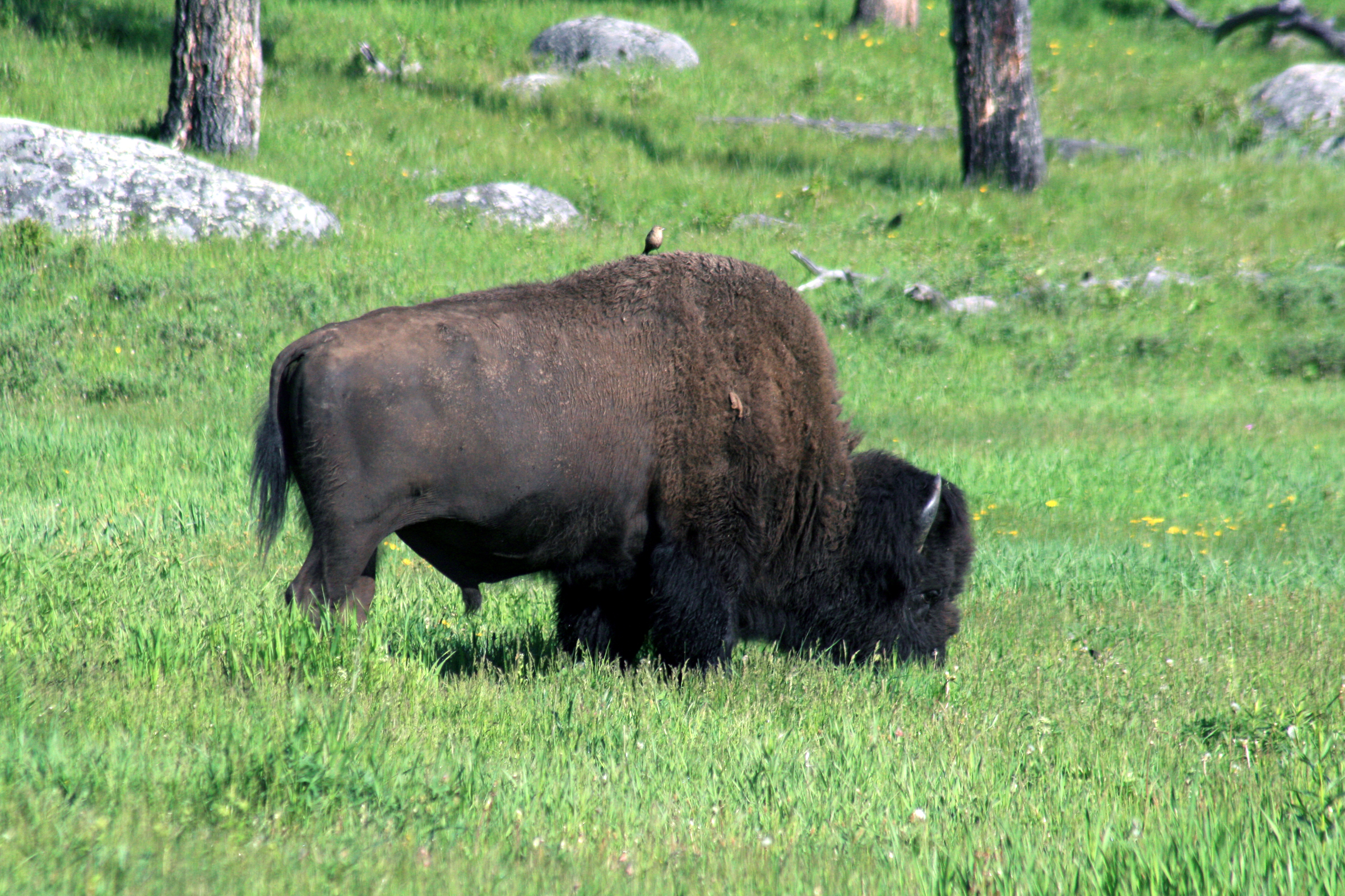 a bird is riding at American bison's ,Bison bisonback in Yellowstone National Park